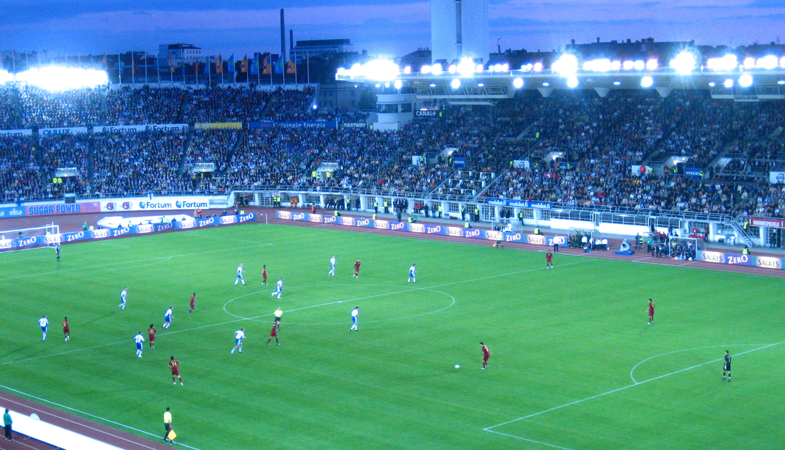 Finland - Portugal 06 Sept 2006, Olympiastadion